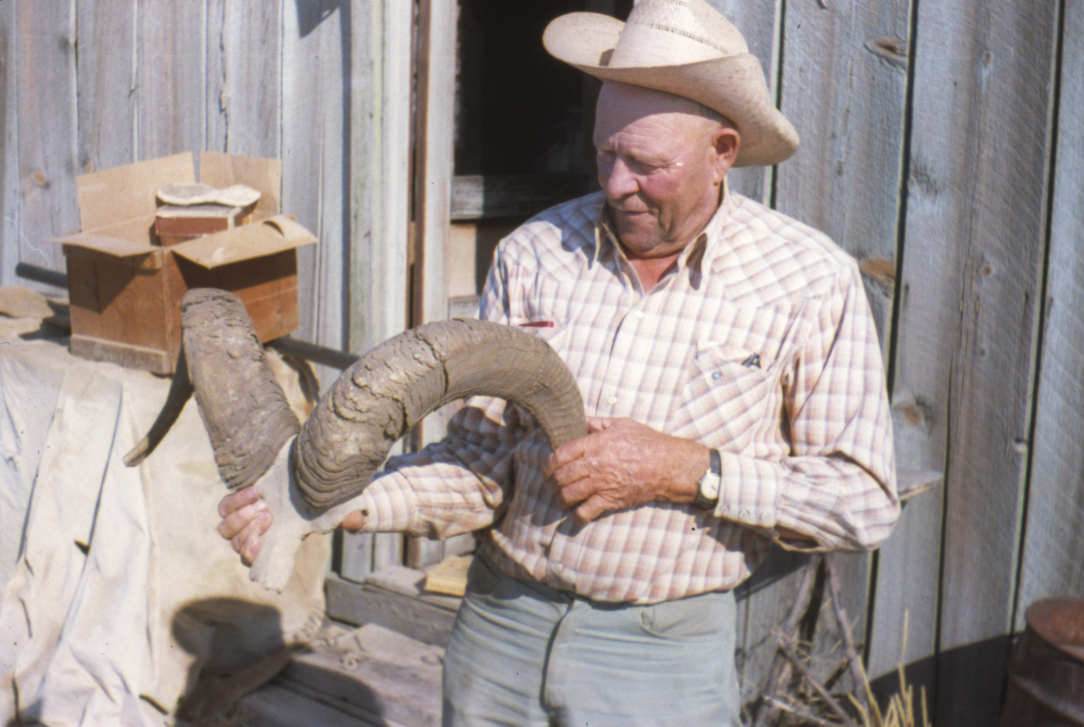 Reub Long, co-author of the book, The Oregon Desert. “One horny old goat contemplating another” Take at Fort Rock Cave, Oregon in September 1966 by John Atherton. It is on-line at "flickr" web-site: This file is licensed under Creative Commons Attribution ShareAlike 2.0 License.